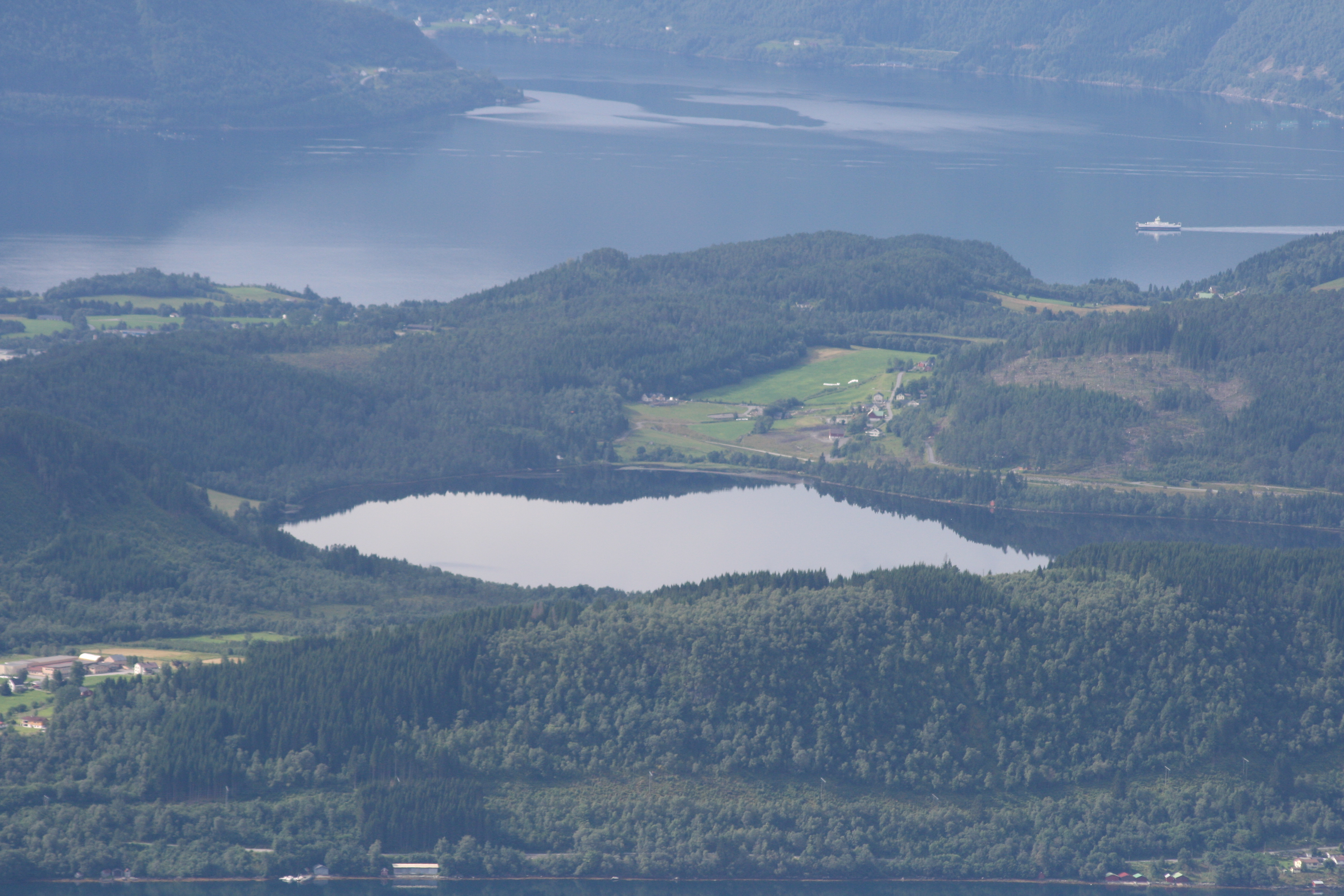 Hovdevatnet, Ørsta and Volda, Norway - seen from Saudehornet in Ørsta